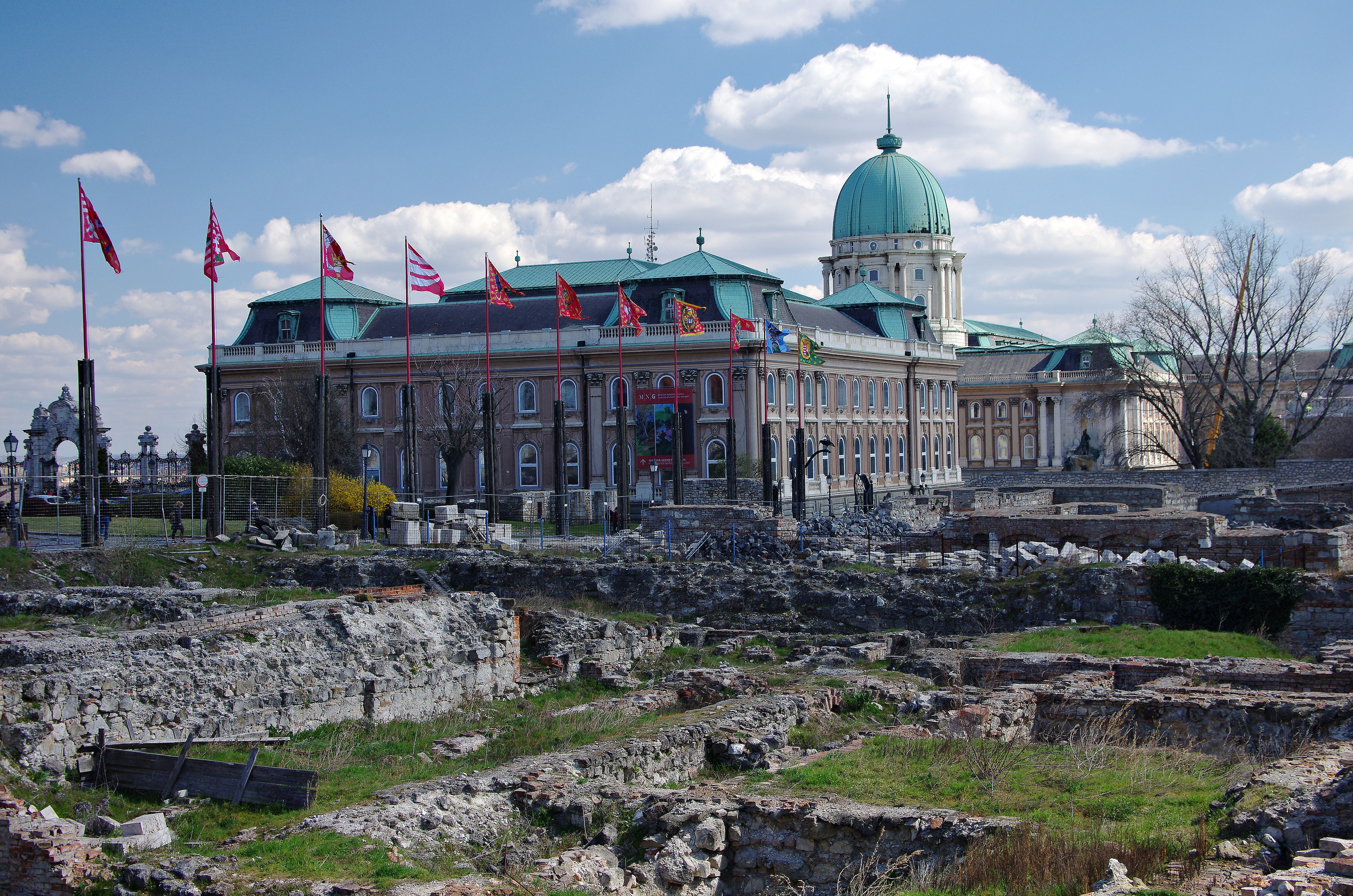 03 2019 photo Paolo Villa - F0197876 bis- Budapest - Castello di Buda dall'area archelogica, cupola Neomichelangiolesca Neoclassica